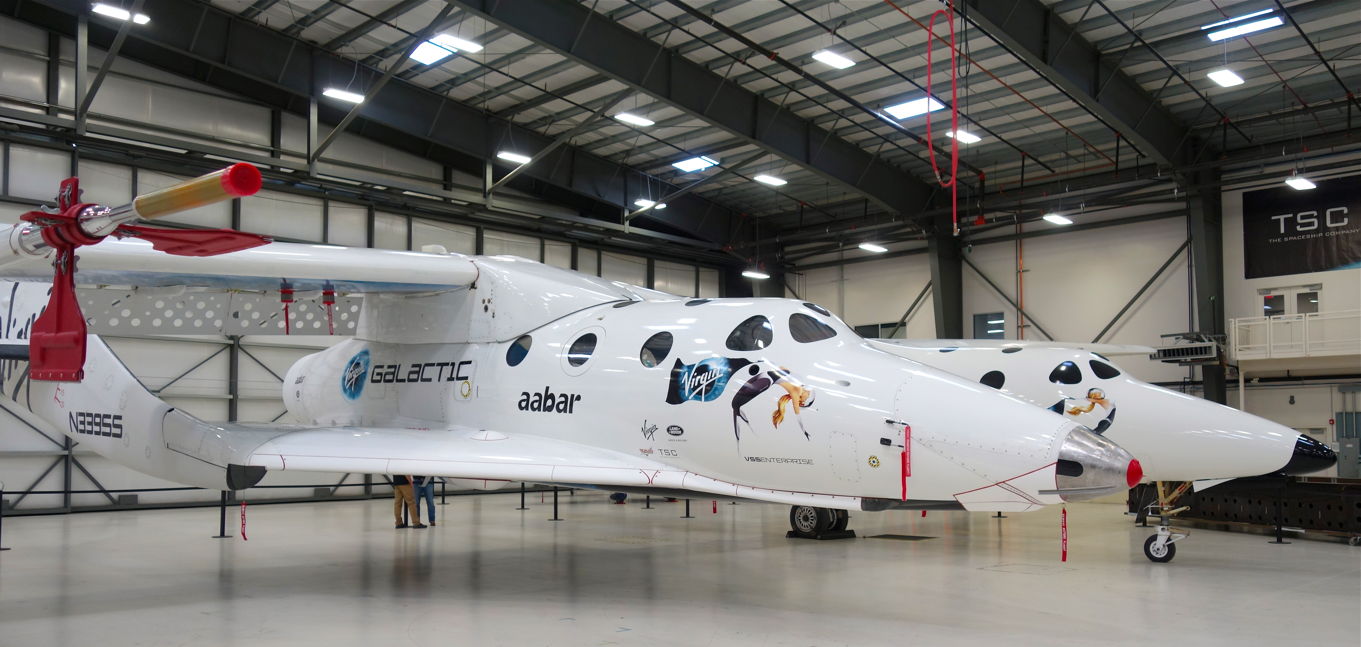 SpaceShip Two mated to the Mother ship White Knight Two. The mother ship, Eve, is the largest all-composite aircraft ever constructed and has the longest single-piece composite aircraft part: a 140 ft.- long wingspan.